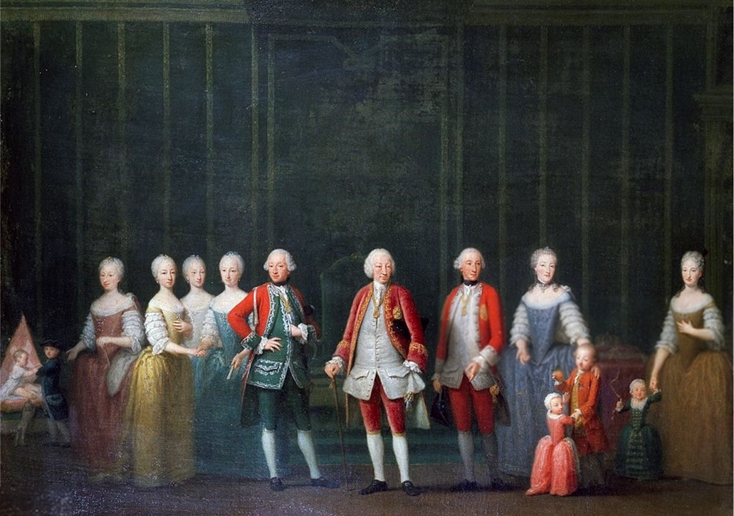 The Savoyard royal family of King Charles Emmanuel III, his three dead wives and children